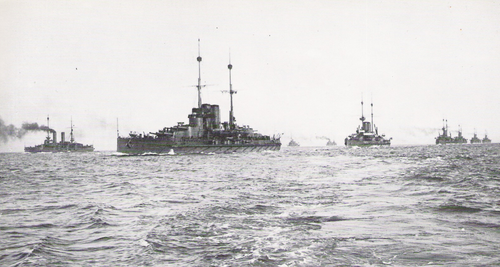 Austro-Hungarian fleet on manouevres. (Leading dreadnought battleship is the "Tegetthoff").